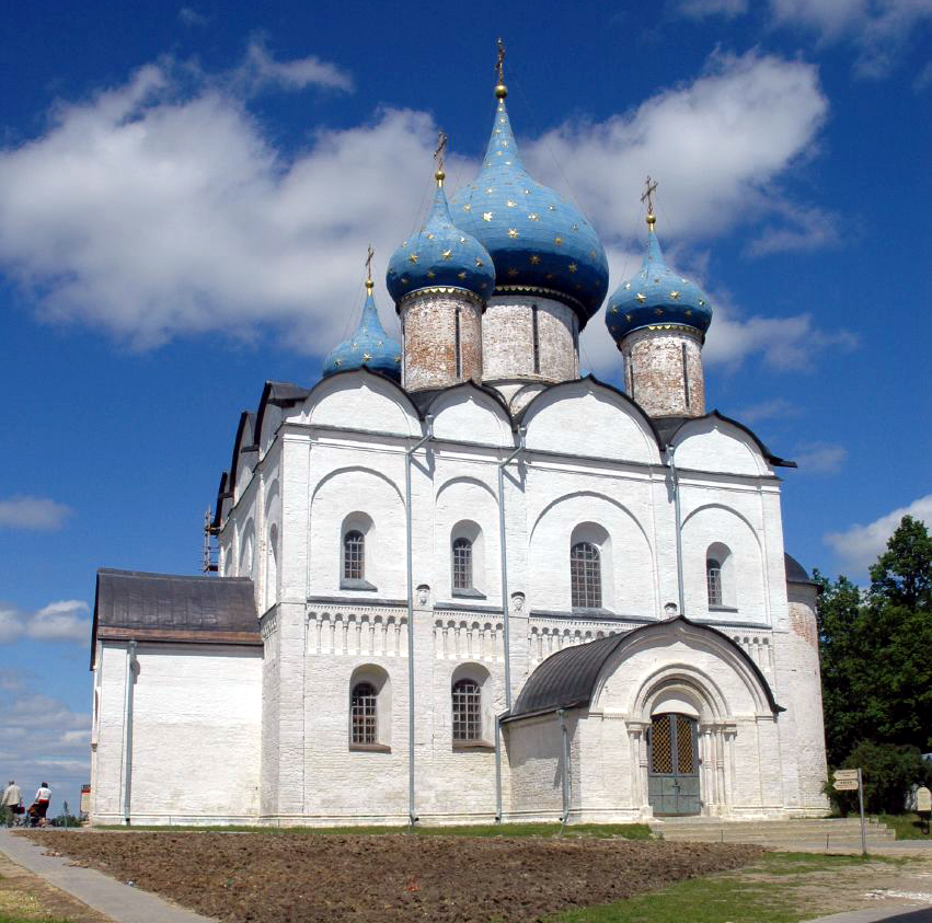 Cathedral of the Nativity of the Virgin, Suzdal Kremlin.